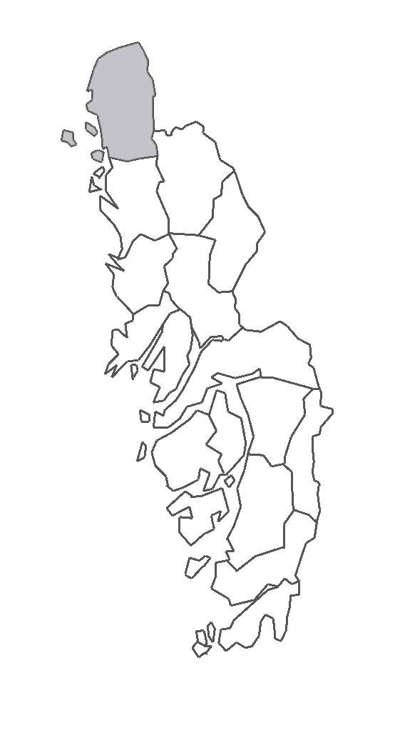 Map describing the location of Vette Hundred in Bohuslän Province, Sweden.